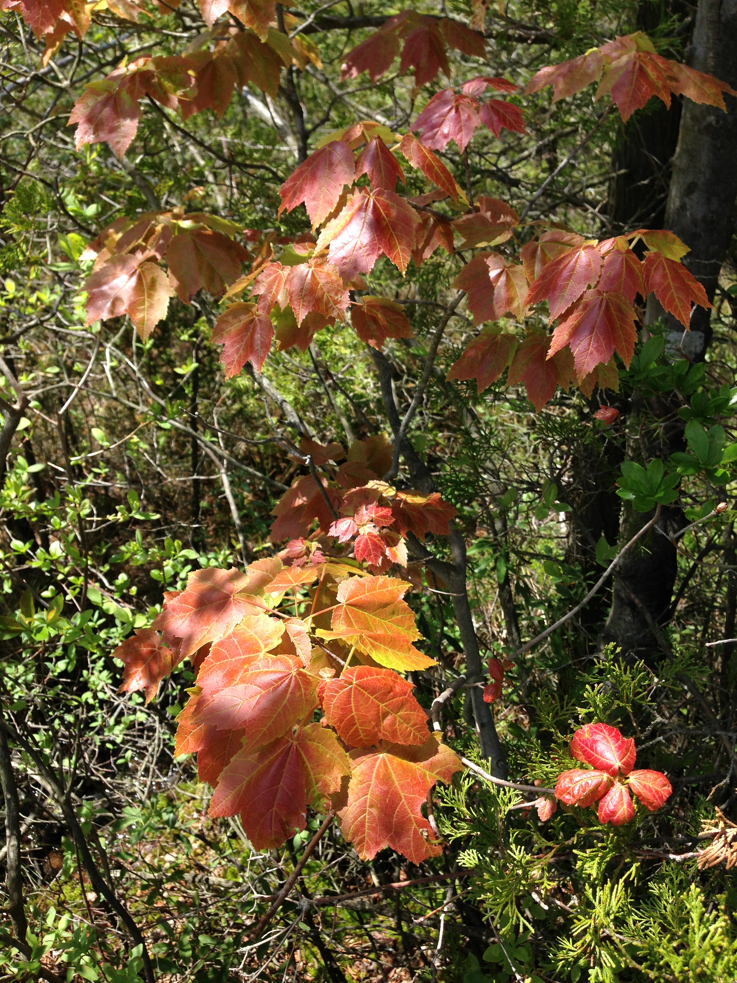 Immature foliage of Acer rubrum (Red Maple) in Brendan T. Byrne State Forest, New Jersey